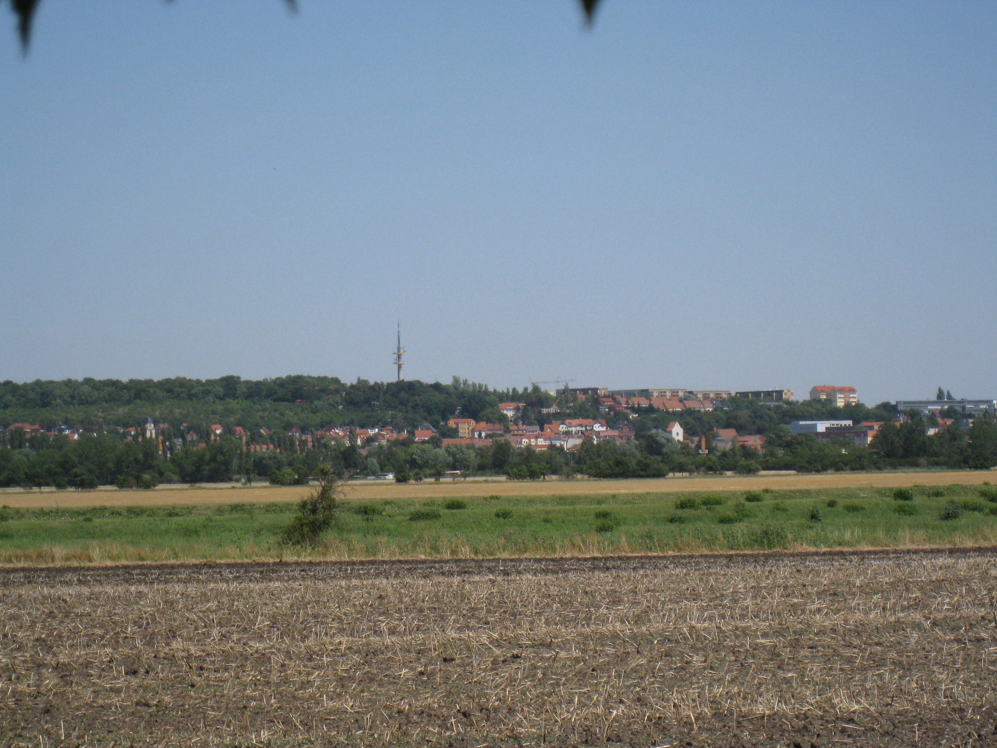 View on Artern, Thuringia, Germany